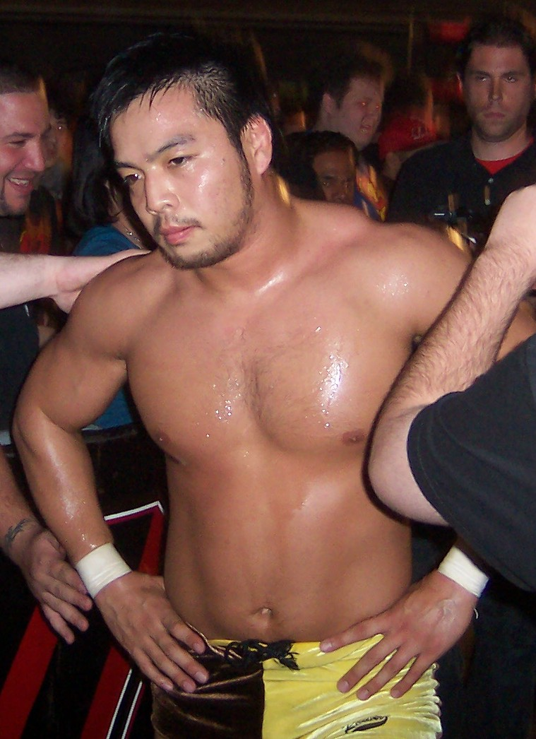 Photo of KENTA taken at a ROH event in NYC.